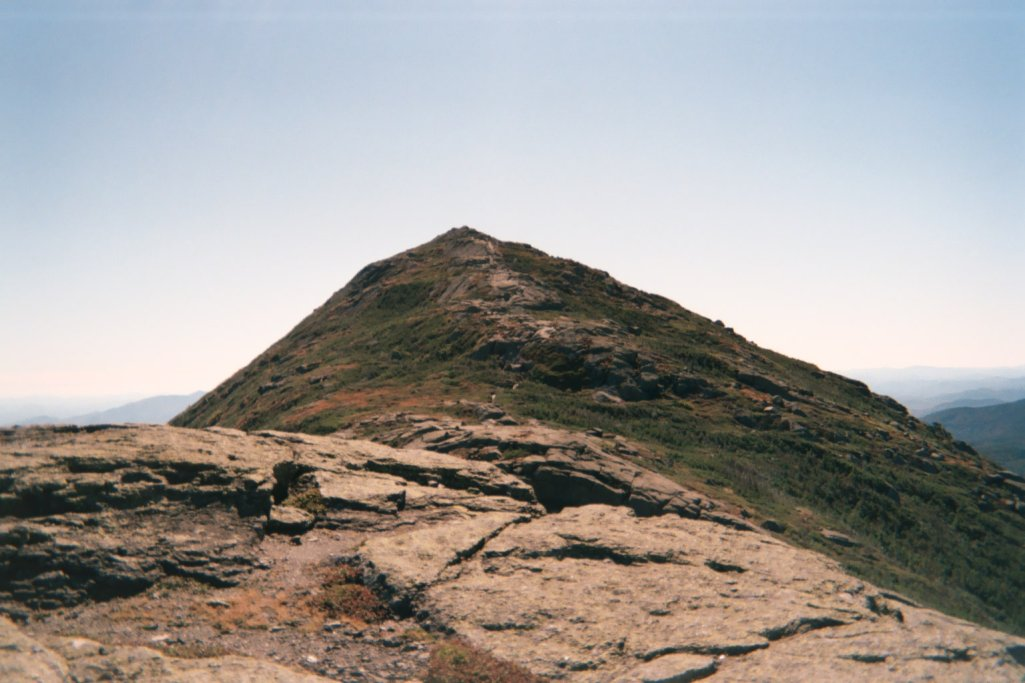 Mount Haystack in the Adirondacks Mountain Range, New York State, USA. Photo taken from the sortof-mountain known as "Little Haystack".